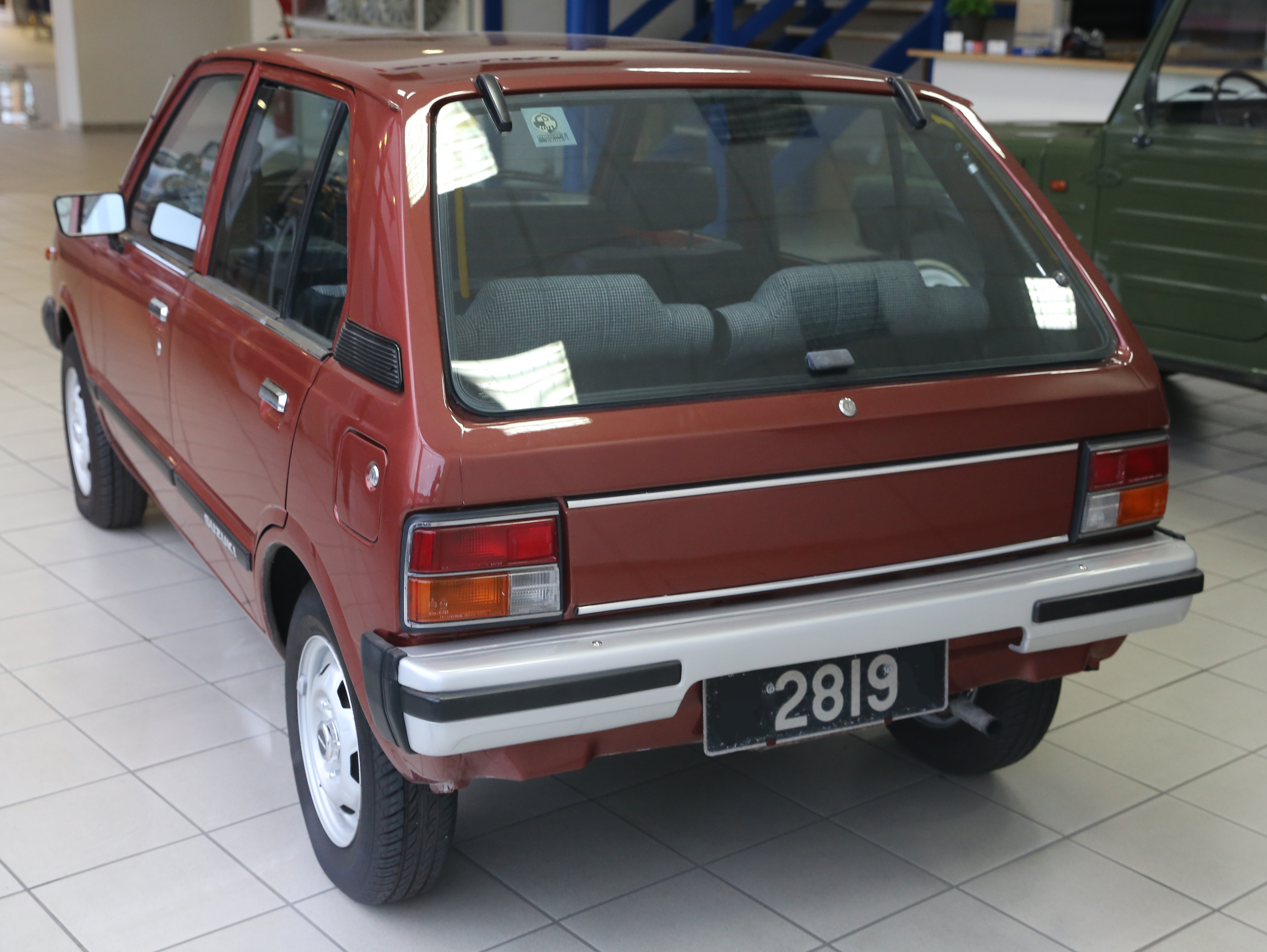 1981 Suzuki Alto SS80 proudly displayed at a dealership in Iceland.